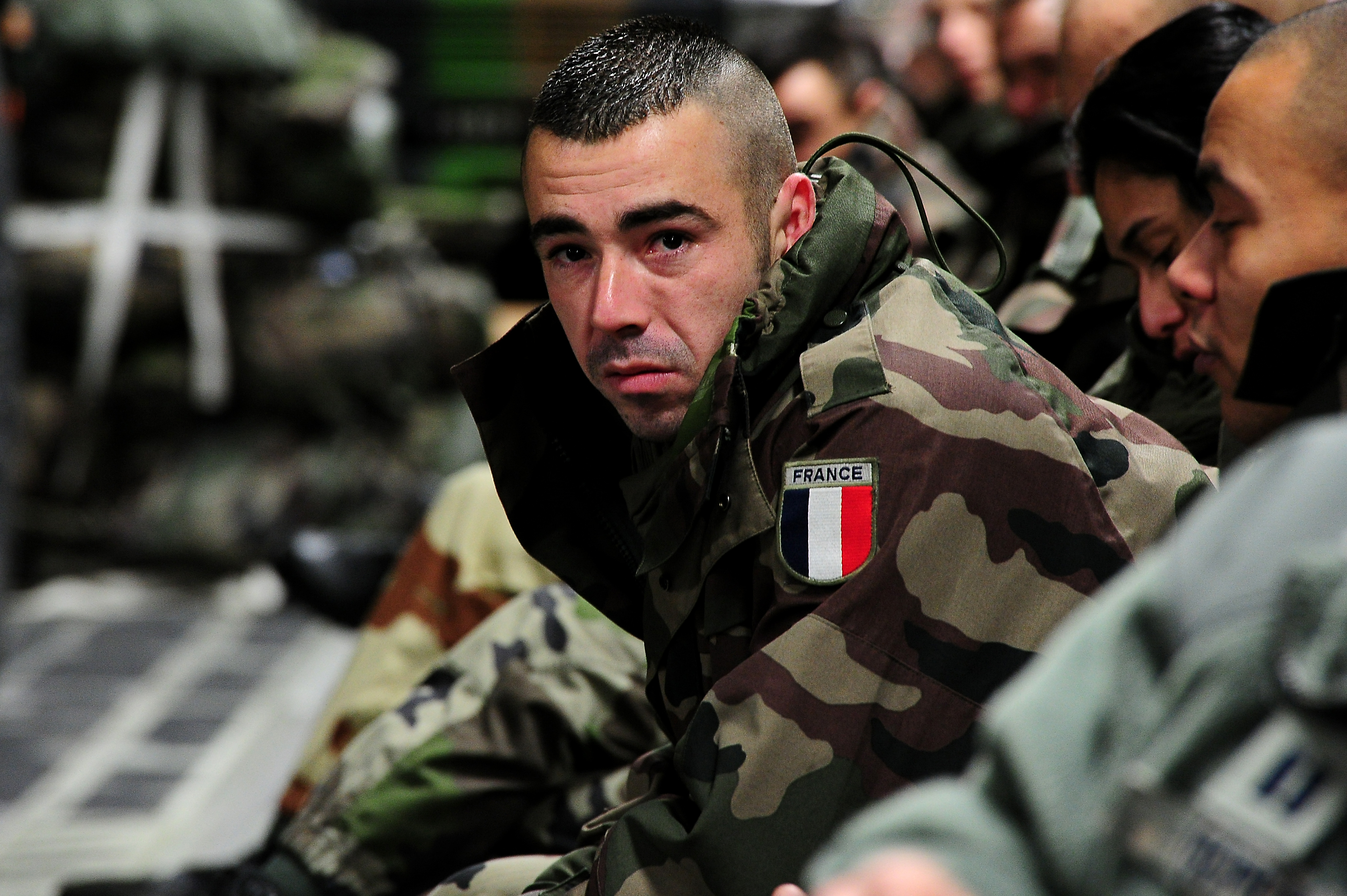 A French soldier relaxes inside a U.S. Air Force C-17 Globemaster III while in route to Mali as France increases their presence in the African nation to fight off extremists that have taken control of much of Northern Mali Jan. 20, 2013. The United States has agreed to support France by airlifiting troops and equipment to Mali.